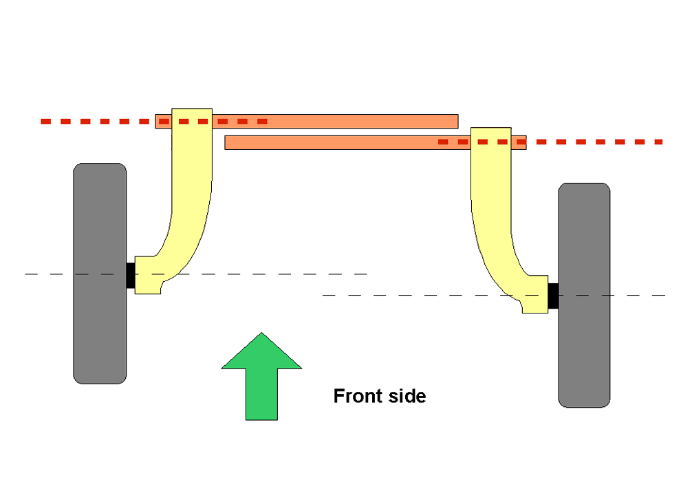 A schematic view of a Trailing arm suspension.